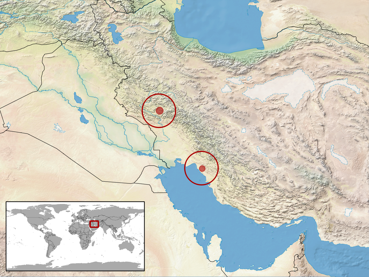 geographic distribution of Coluber andreanus syn. Hierophis andreanus (Native: Iran, Islamic Republic of)